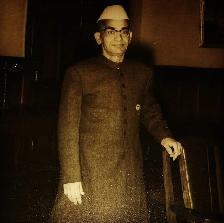 Prime Minister of Orissa province (1937-1939)